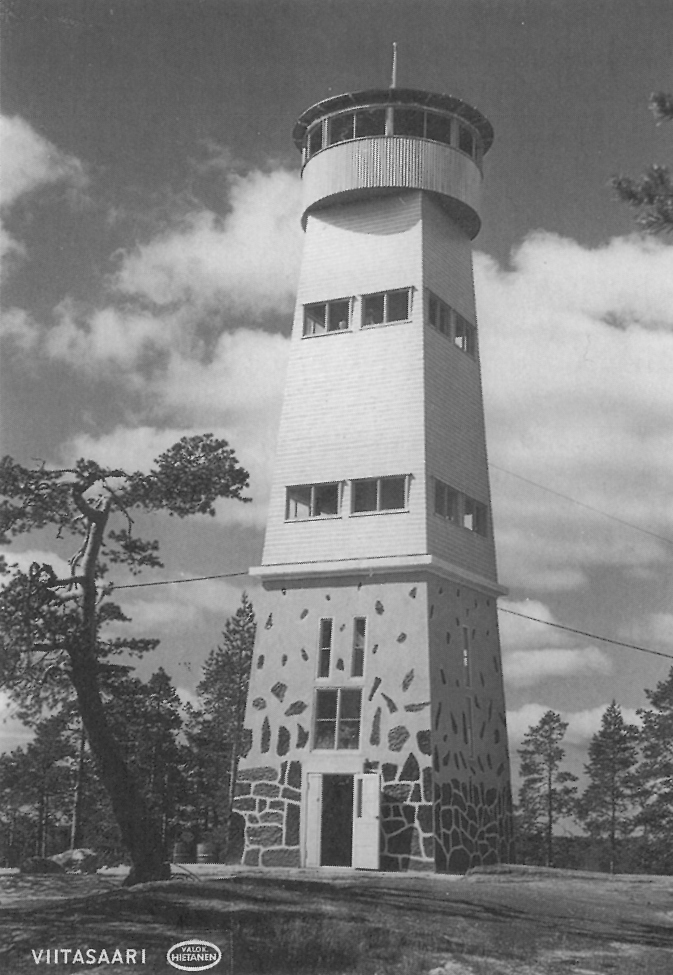 Photograph of Viitasaari Lookout Tower in the late 1950s.